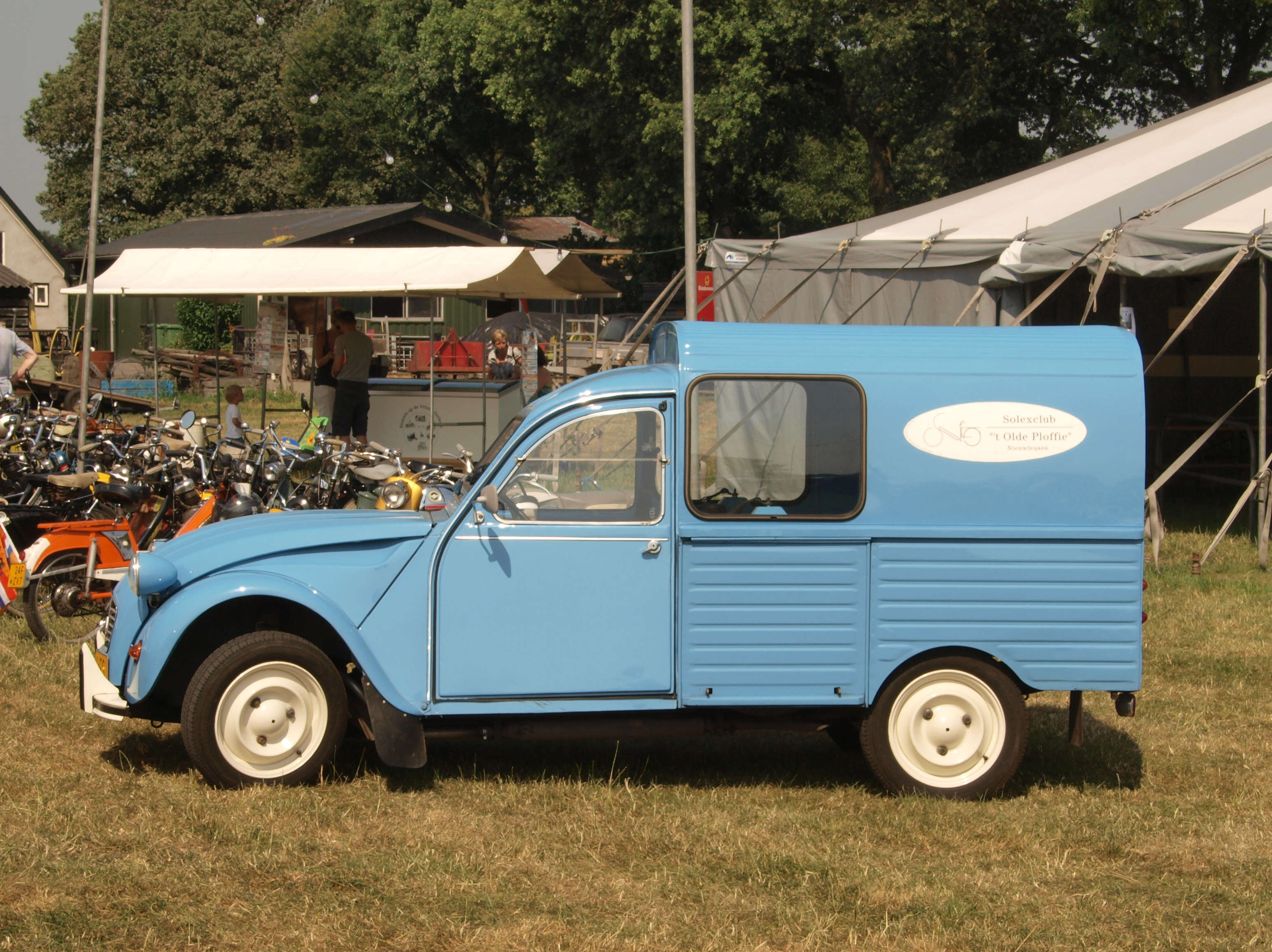 1981 Citroën 2CV van Photographed in The Netherlands. Blue Citroën 2CV